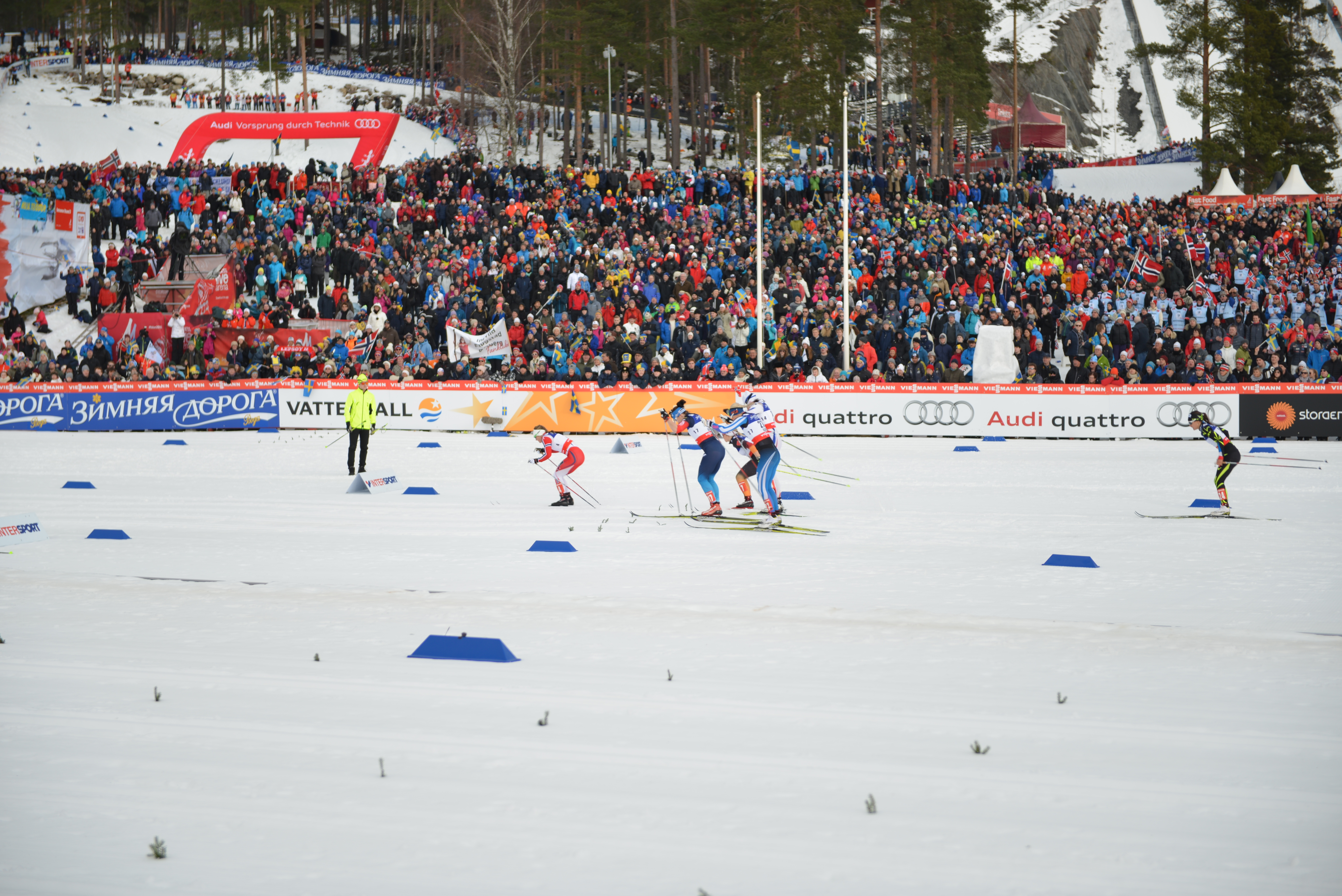 Cross-country sprint quarterfinal at the FIS Nordic World Ski Championships 2015 in Falun